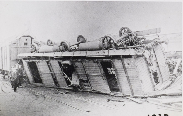 Tornado of 1927 in the Netherlands